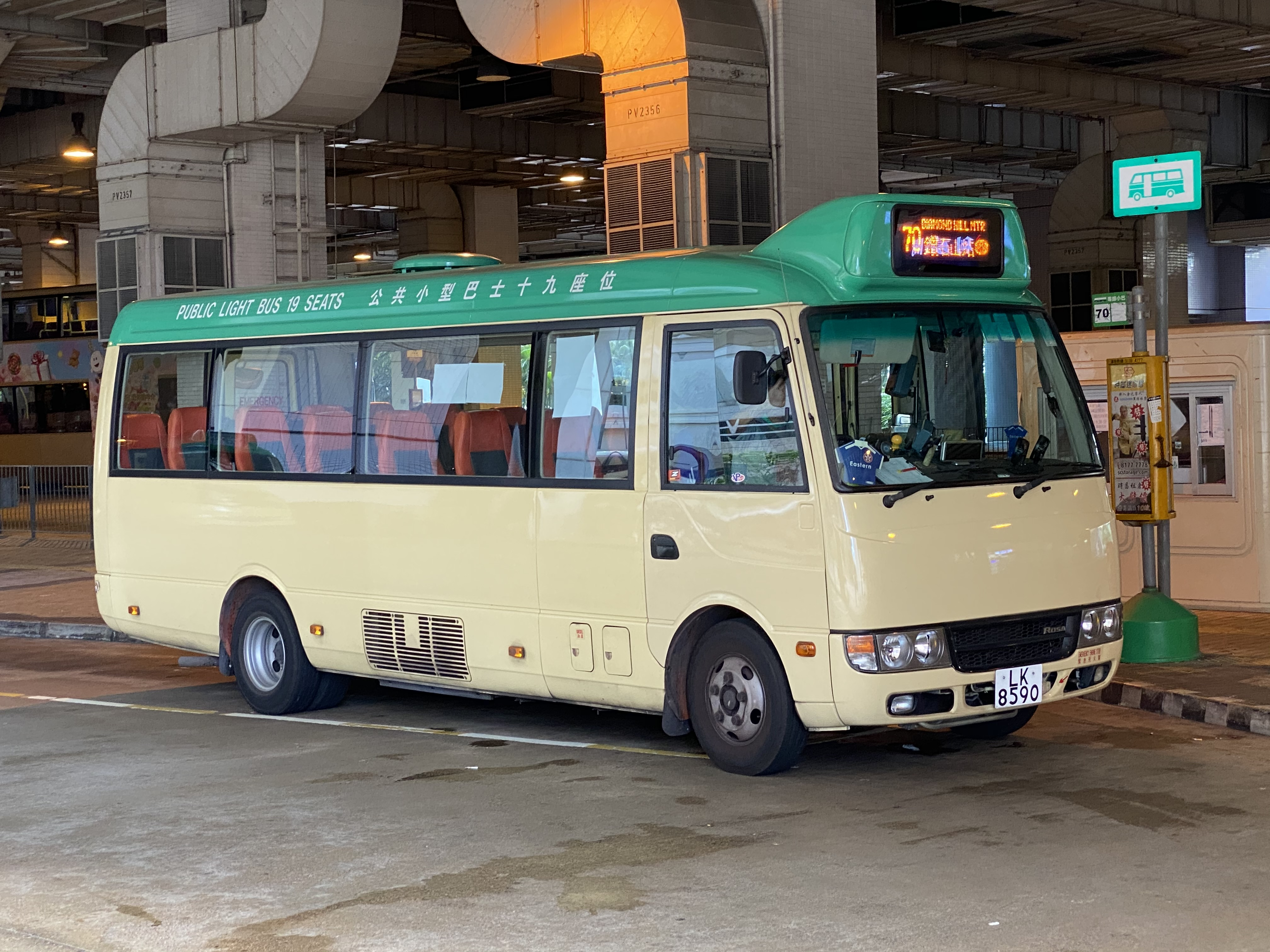 中文（香港）: This photo is taken in Island Harbourview.